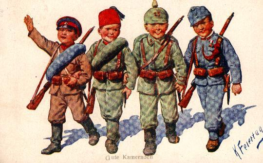 Postcard showing members of First World war`s "Central Powers" as children